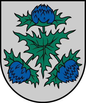 Coat of arms of Pāvilosta Municipality